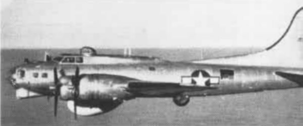 A U.S. Navy Boeing PB-1W Fortress early warning and control plane in flight. Note that the plane is still equipped with gun turrets, as it was planned that these planes would operate in hostile areas.